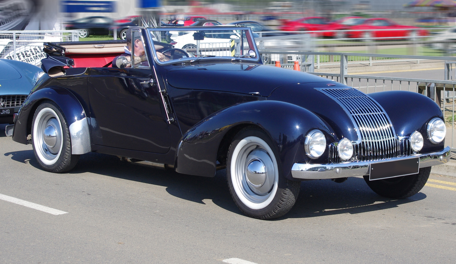 1949 Allard M 3.9L Drophead Coupé (Canadian Mercury flathead V8) at the Silverstone Classic, 2012. Chassis number M716.